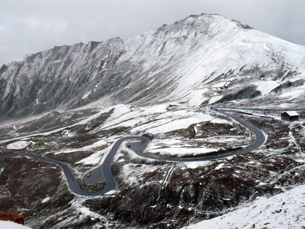 Wilfried-Haslauer-Haus